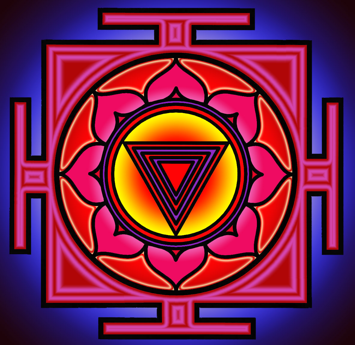 Kali Yantra